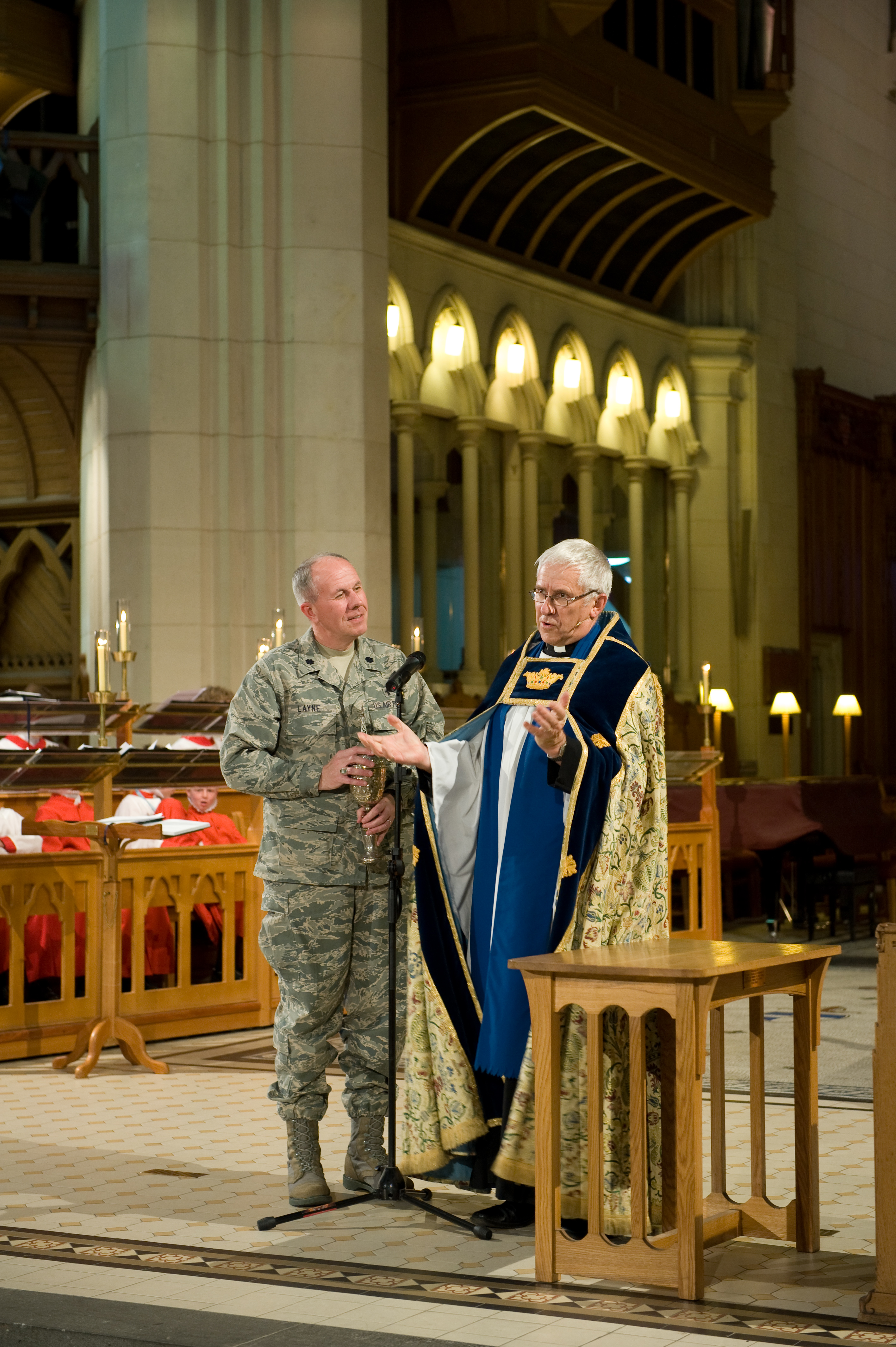 Members of the United States and New Zealand Partnership Forum for 2011 were invited to Evensong at the Christchurch Cathedral on Sunday 2 February 2011. This Evensong commemorated United States Presidents’ Day, which was Monday 21 February. Officiant and Preacher: Dean Peter Beck Music: The Cathedral Choir